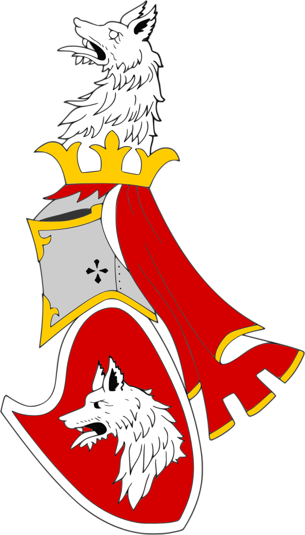 Coat Of Arms Of The Balsics